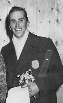 Swedish speedskater Sigge Ericsson.